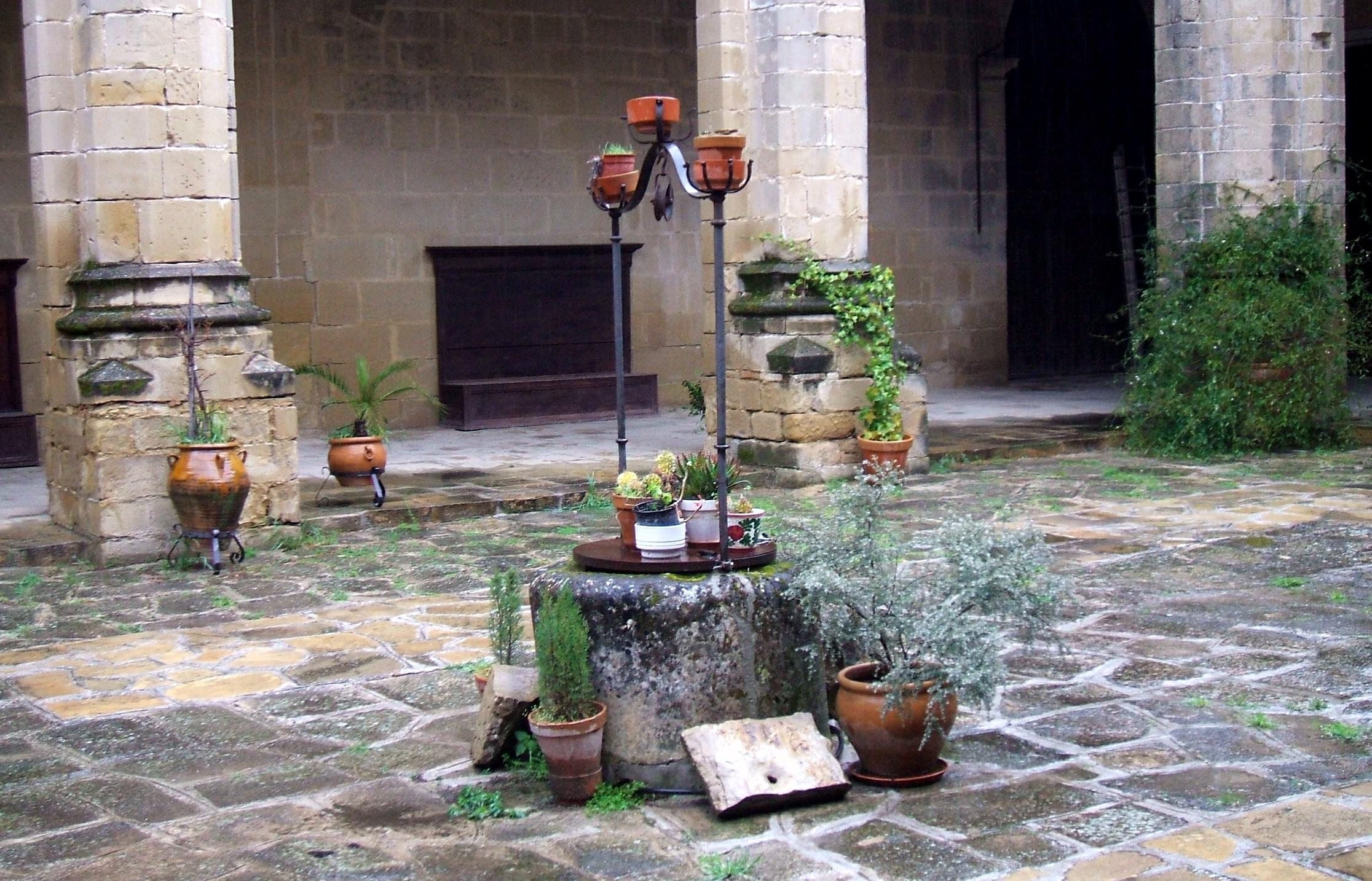 Claustro de la Catedral de Baeza (Jaén, Andalucía, España)